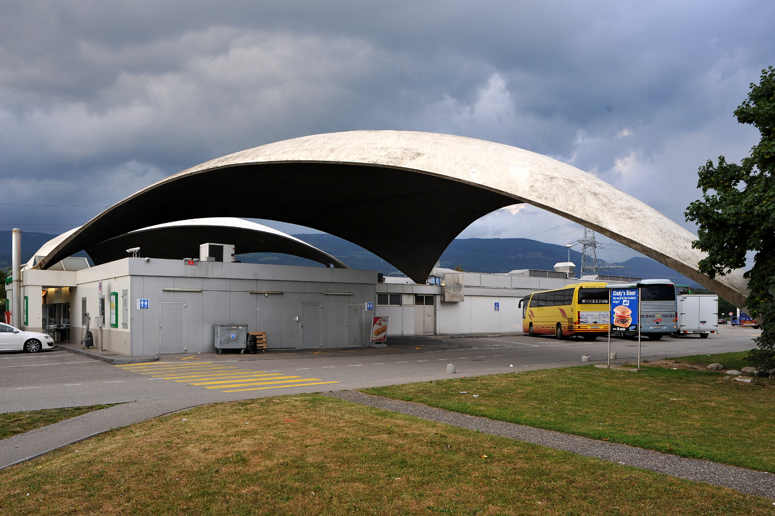 Highway service area Deitingen south, triangle concrete cupola roofs of the Swiss civil engineer Heinz Isler, built 1968; Solothurn, Switzerland.